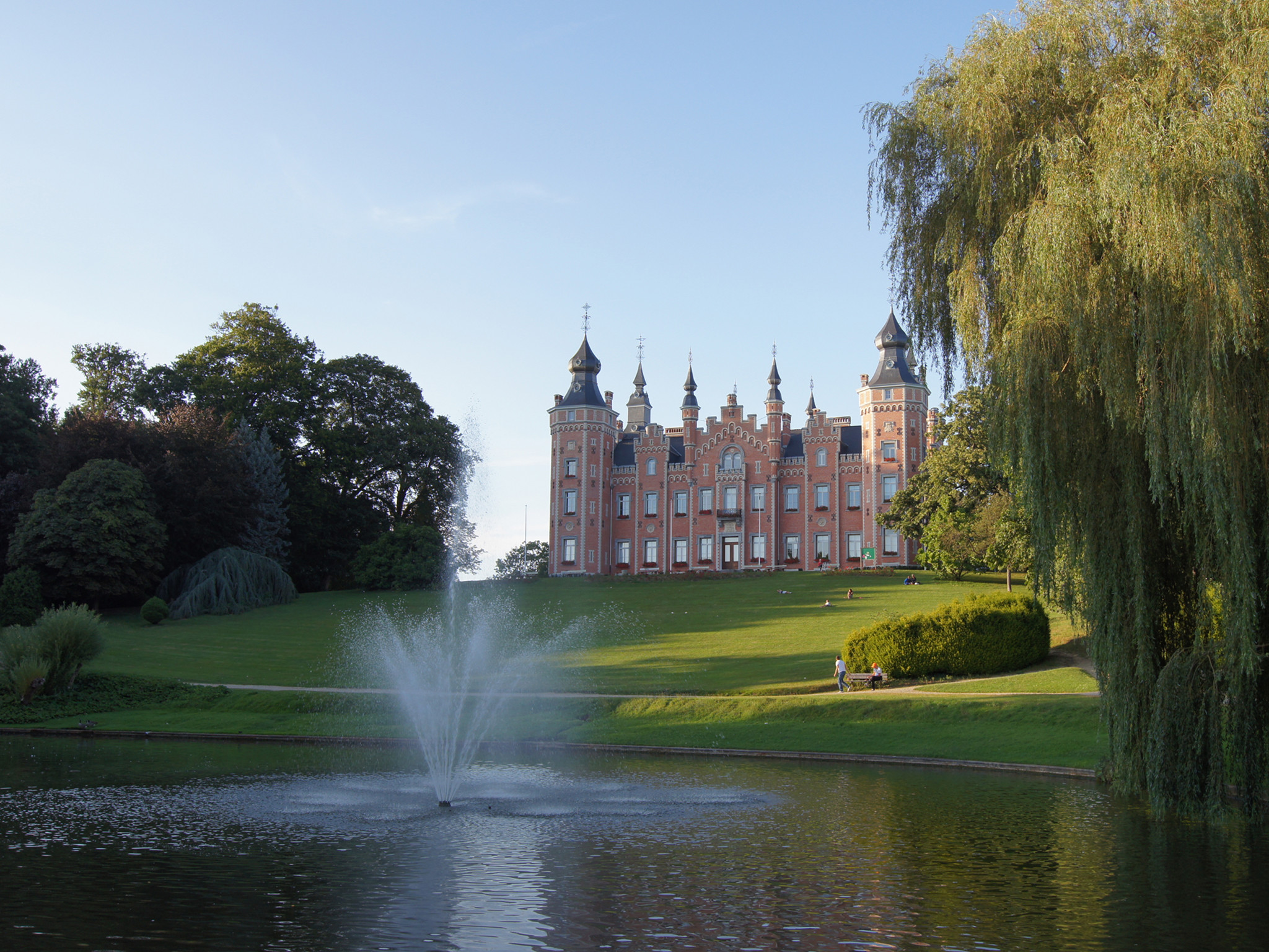 Viron castle